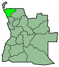 A map from province Zaire, Angola